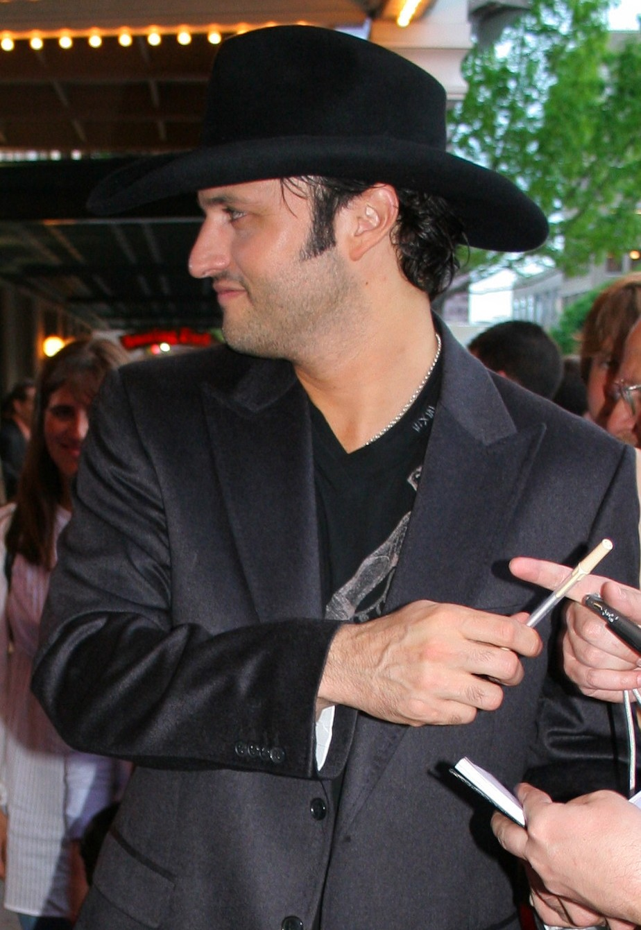 Filmmaker Robert Rodriguez at the premiere of Grindhouse, Austin, Texas.